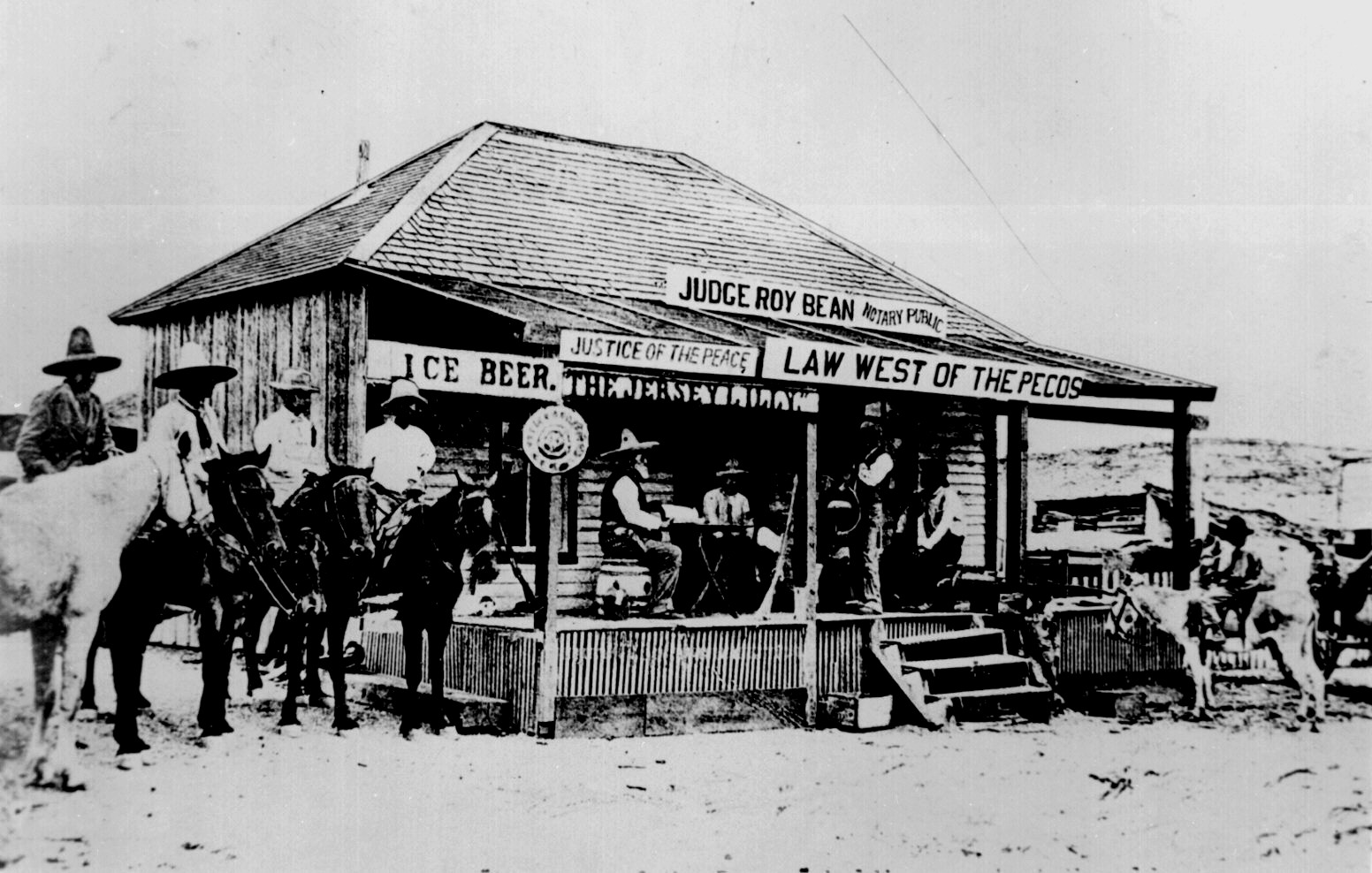 "Judge Roy Bean, the `Law West of the Pecos,' holding court at the old town of Langtry, Texas in 1900, trying a horse thief. This building was courthouse and saloon. No other peace officers in the locality at that time."